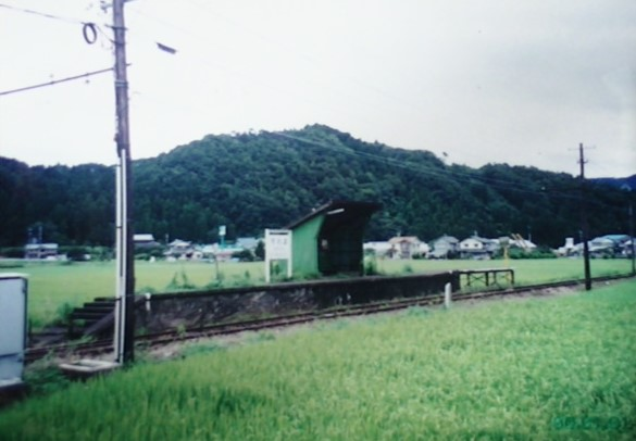 Keifuku Suwama Station 2001 August